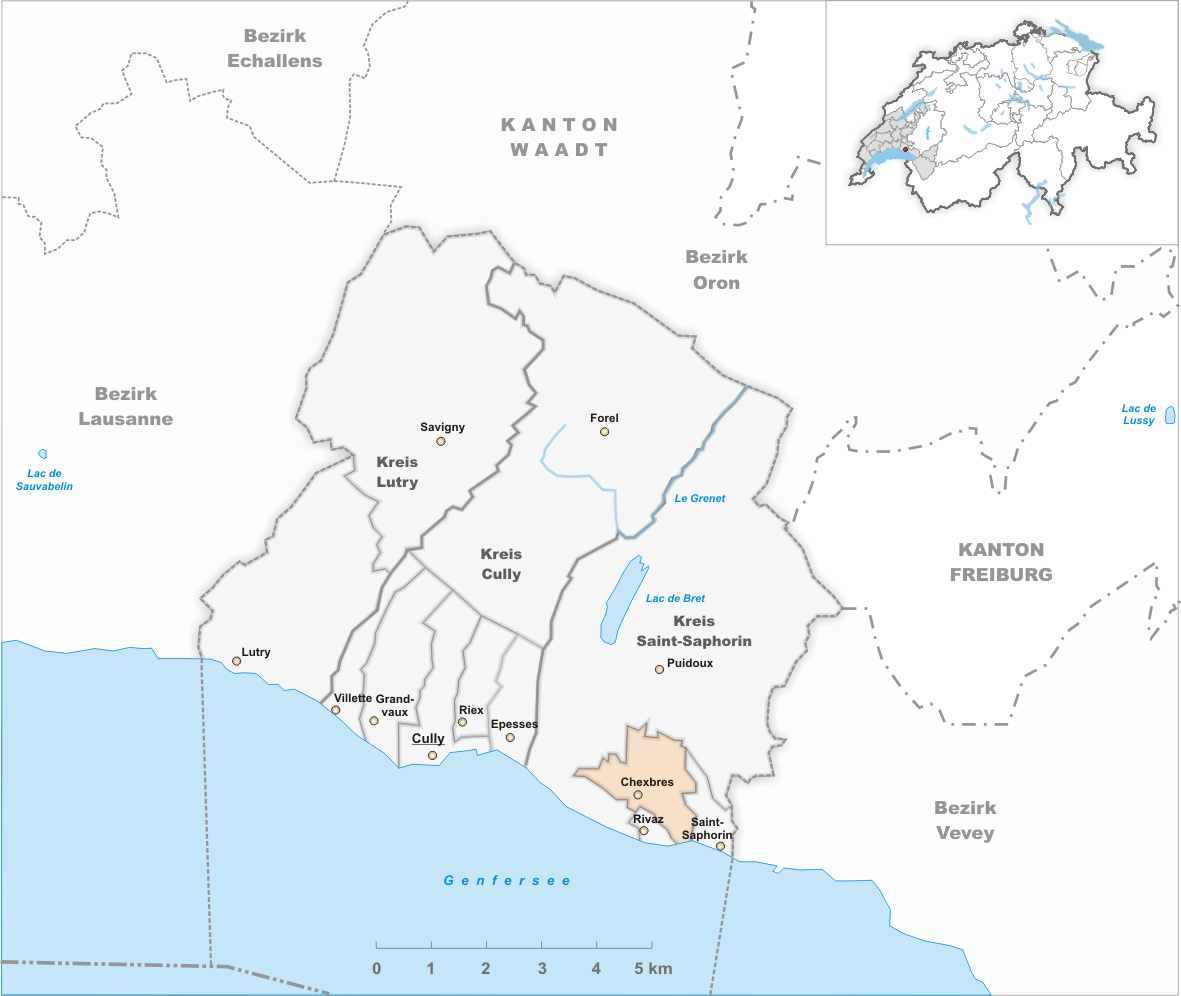 Municipality Chexbres